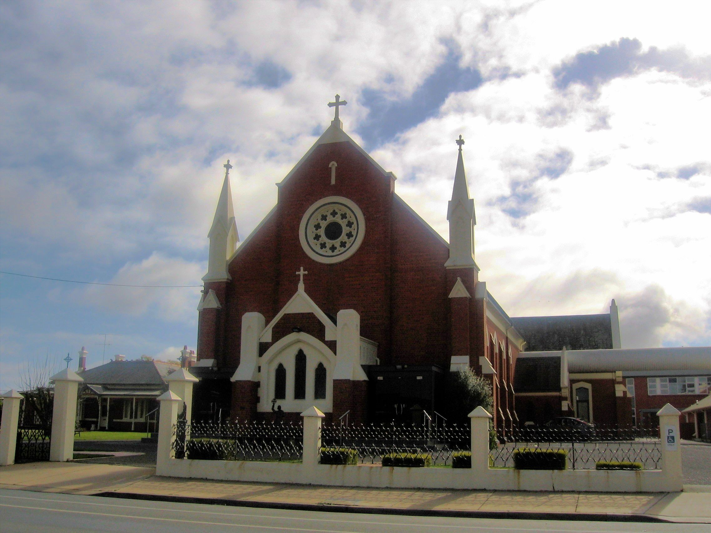 Roman Catholic church at Shepparton, Victoria